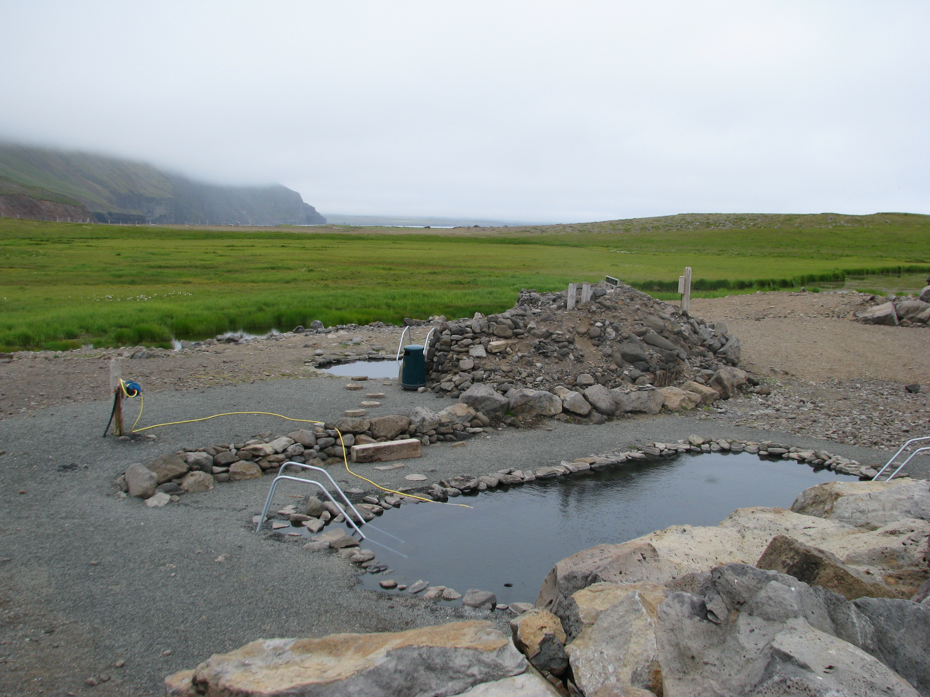 Grettislaug, a warm water well in North Iceland